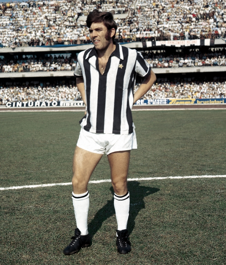 Verona (Italy), Marcantonio Bentegodi Stadium, September 21, 1969. Juventus F.C.'s striker Roberto "Bob" Vieri on the pitch in the away defeat versus A.C. Hellas Verona (1-0), Matchday 2 of the Italian Championship 1969–70 Serie A.